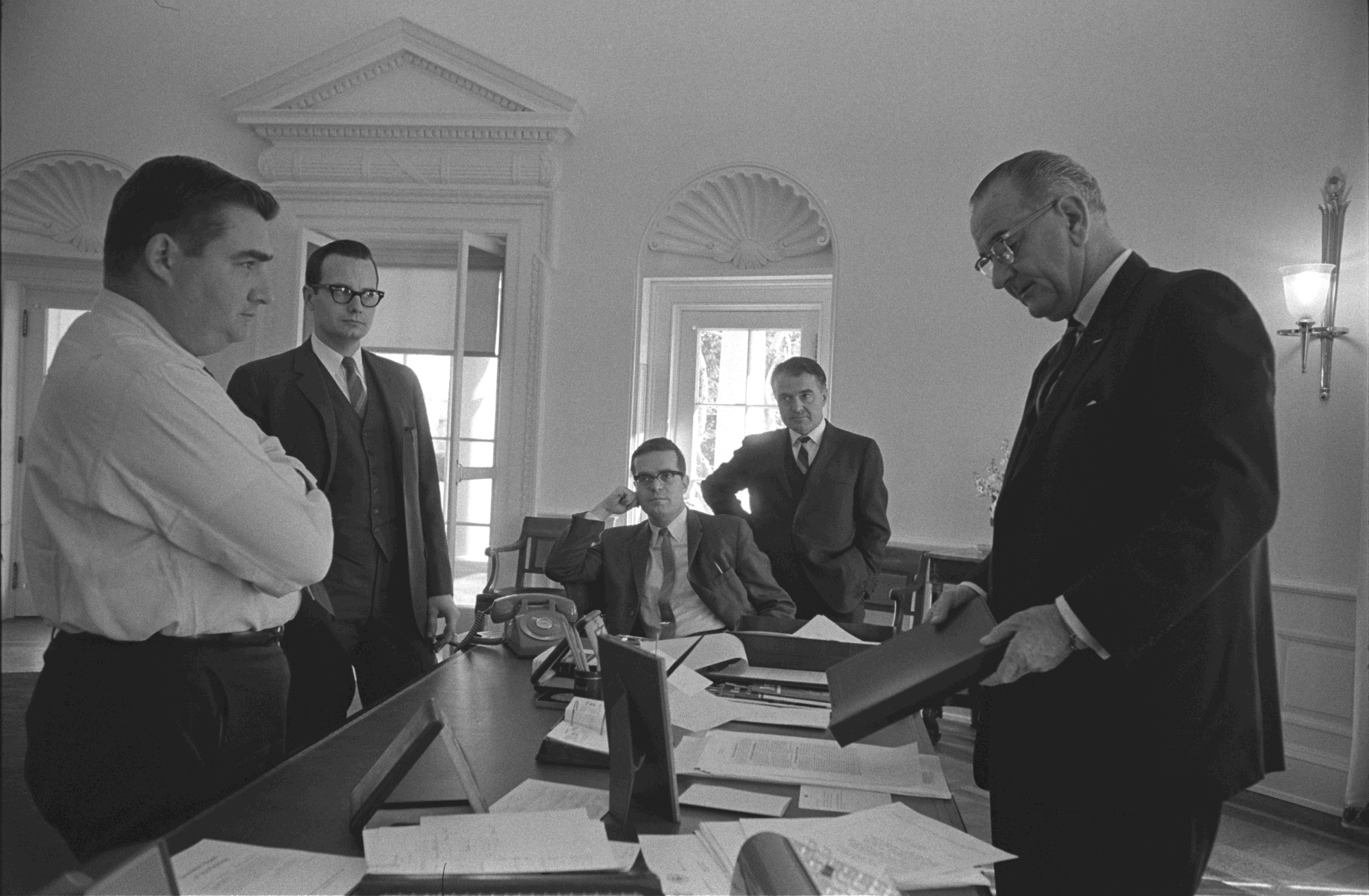 Oval Office Meeting; Pierre Salinger, Bill Moyers, Ted Sorensen, Jack Valenti, President Lyndon B. Johnson